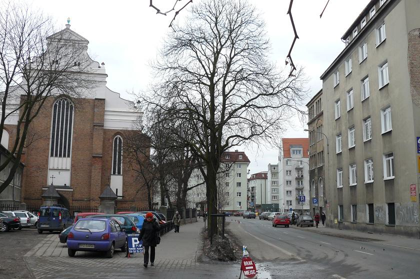 Piaski District - Poznan.